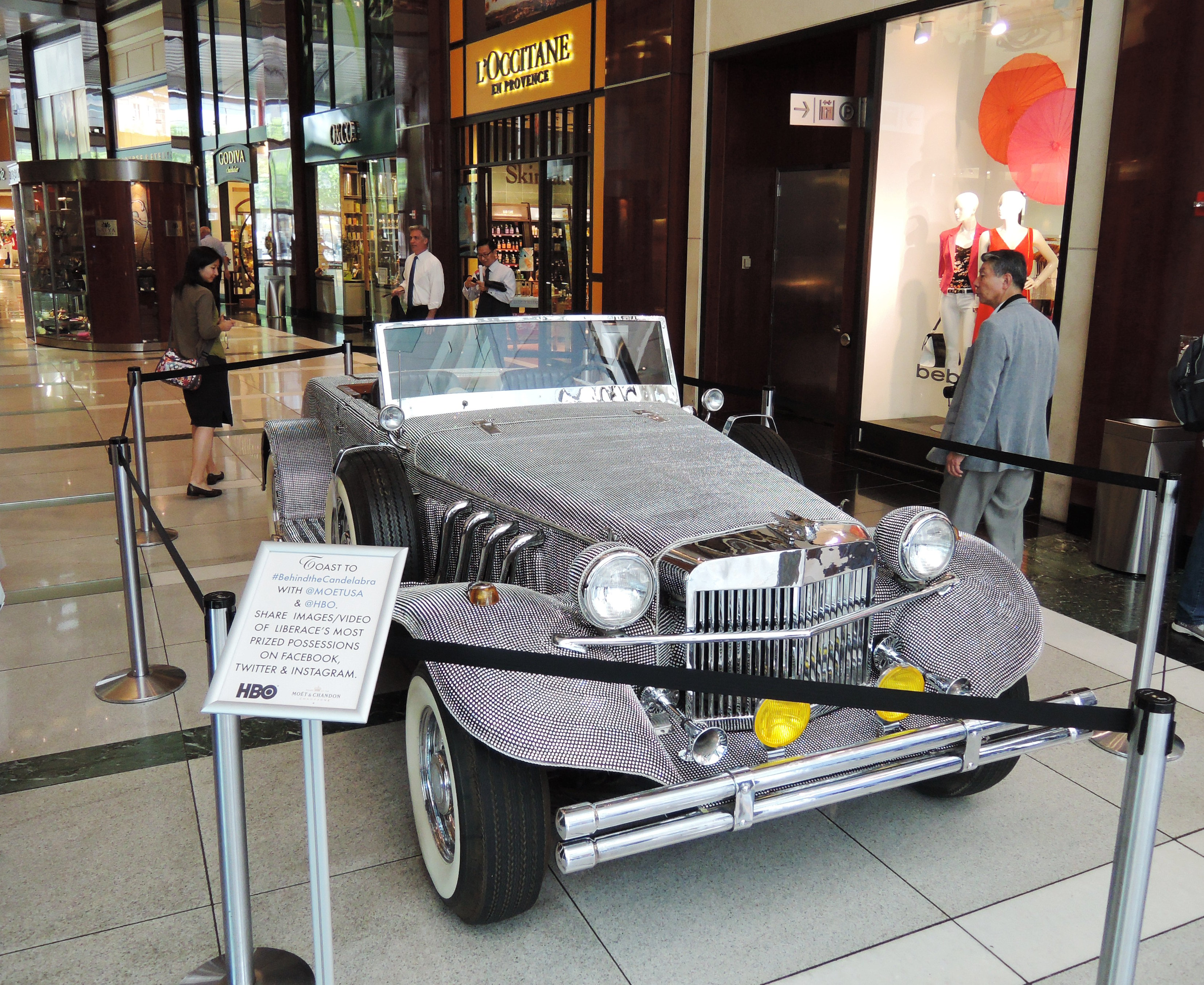 Looking south at Liberace's Rhinestone Roadster on display at TWC south gallery.